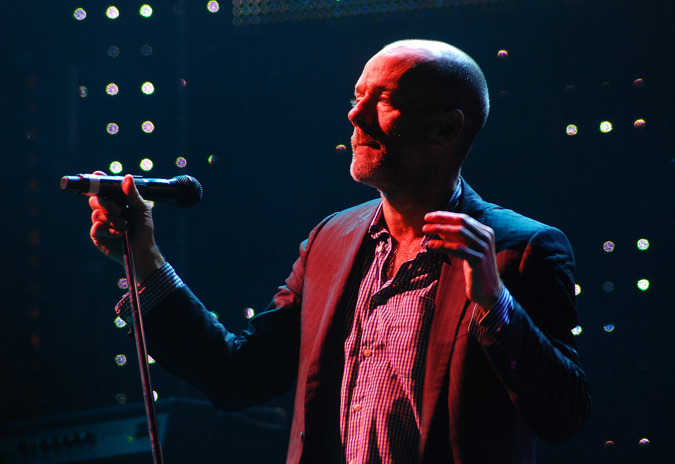 Michael Stipe (REM) Michael taking a break from singing whilst the band plays the instrumental break